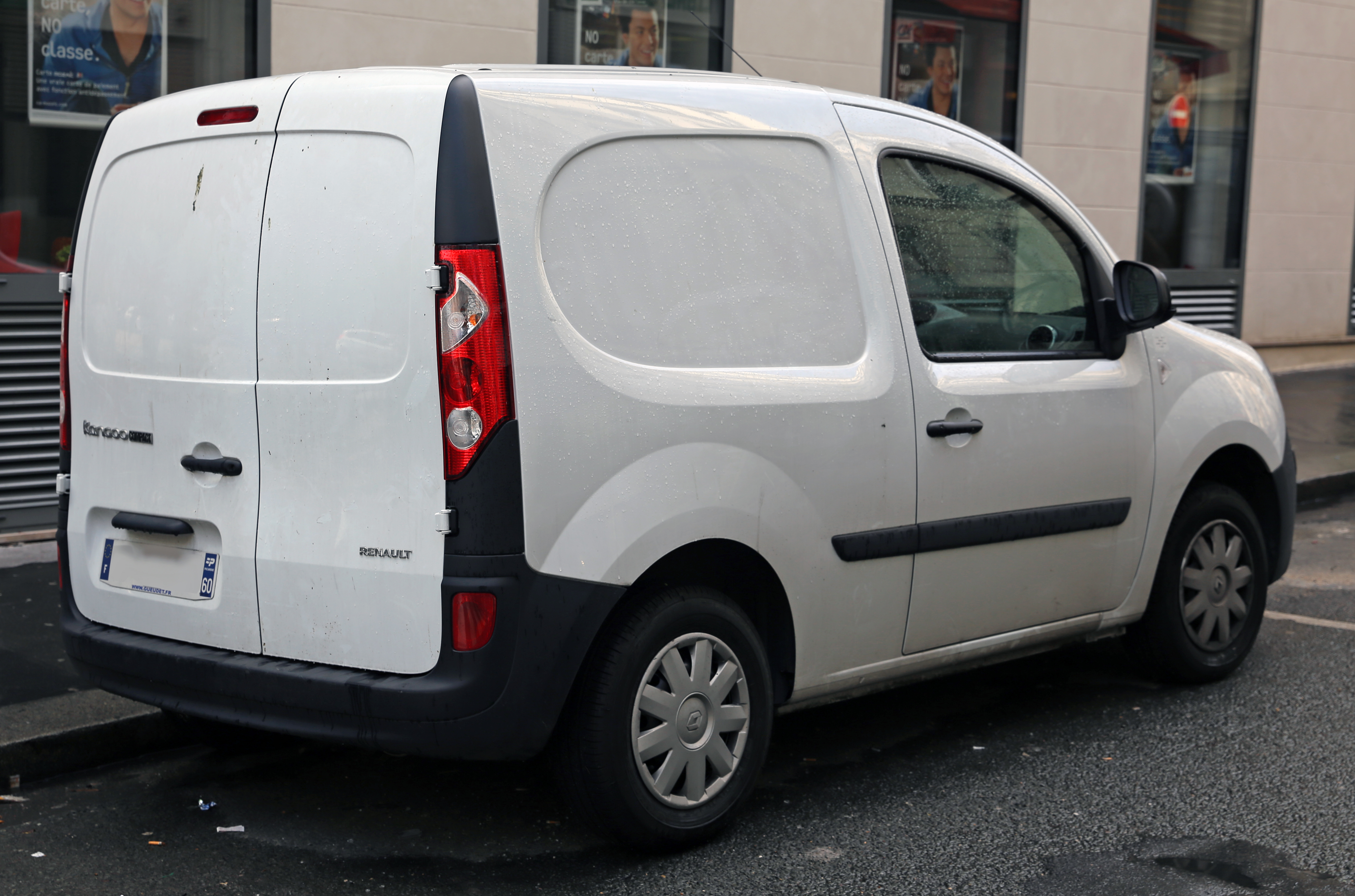 Renault Kangoo Express Compact. Paris of full of very stumpy little trucks.